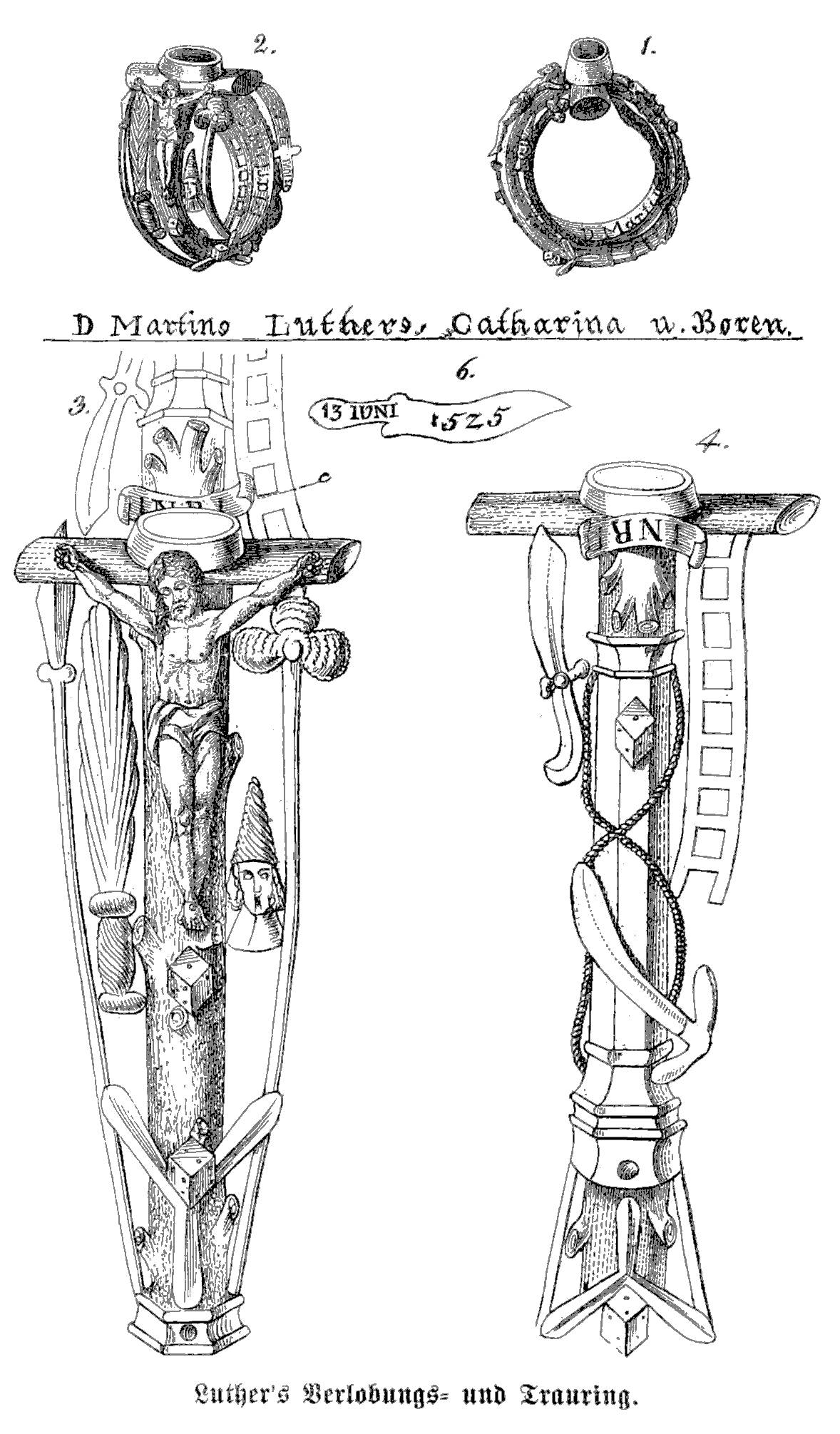 Image from page 387 of journal Die Gartenlaube, 1872.